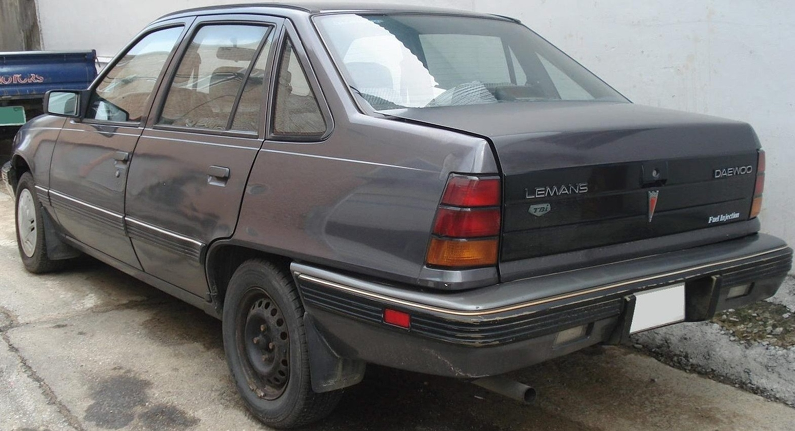 Daewoo LeMans